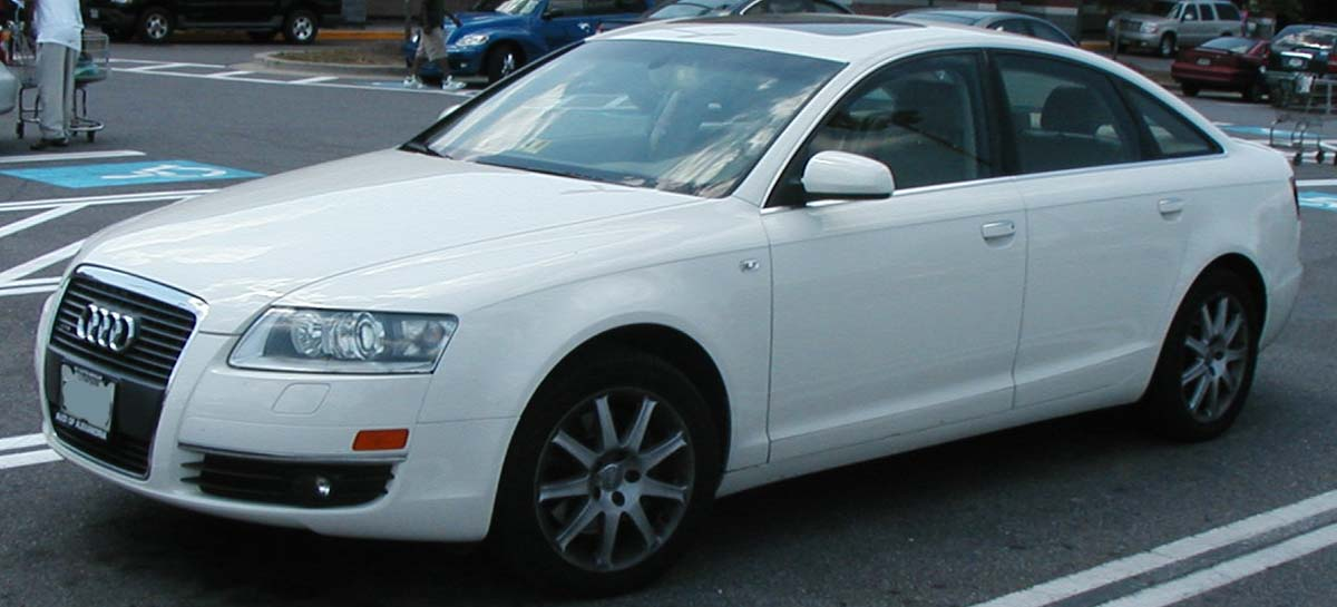 2005-2006 Audi A6 photographed in USA.